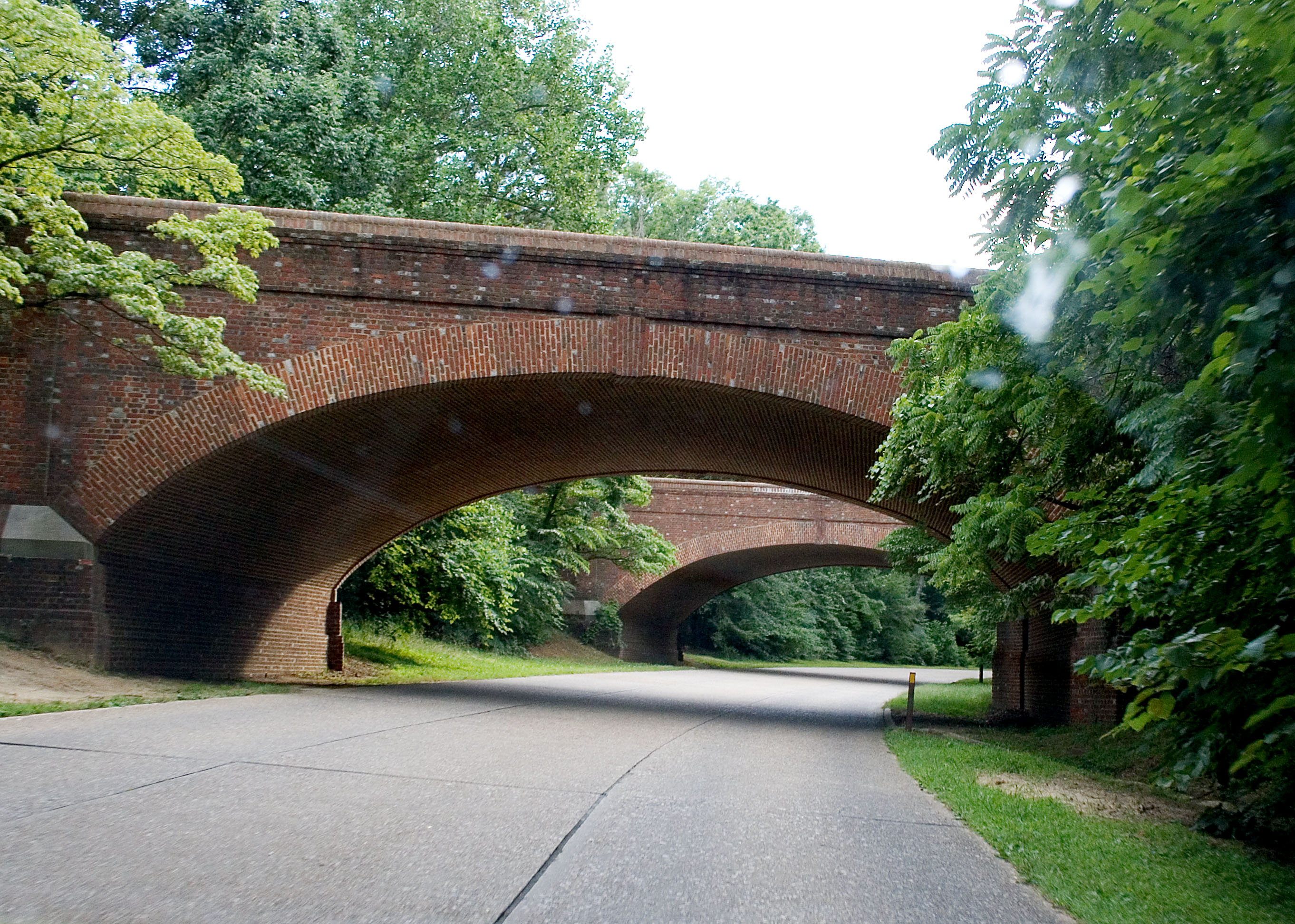 View along Colonial Parkway, showing the characteristic brick overpass bridges that dot the route.